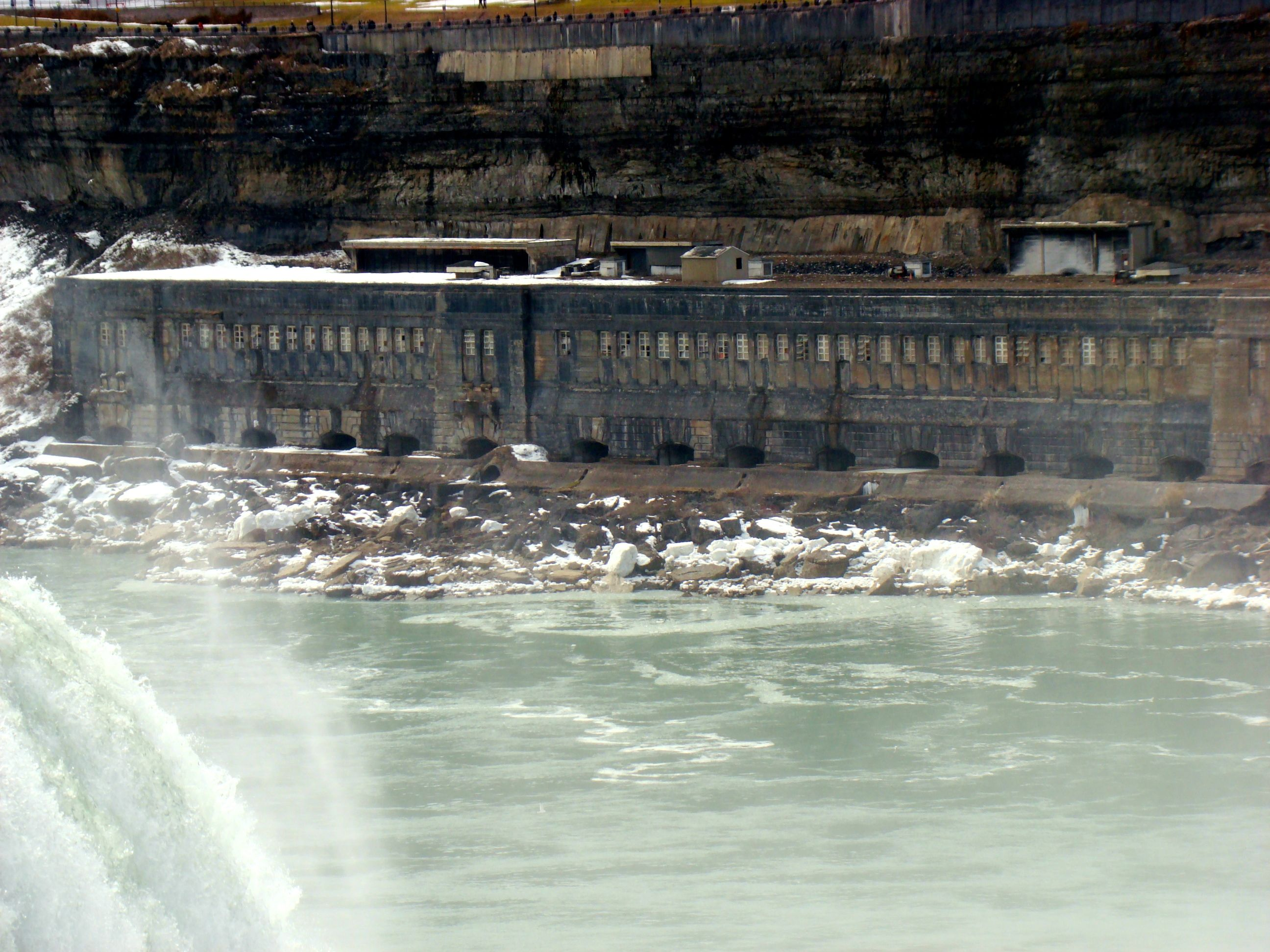 Located on the Canadian side of Niagara Falls, it was built in the 1900s in an effort to manufacture and sell electricity by harnessing the falls. It was decommissioned in December of 1999.